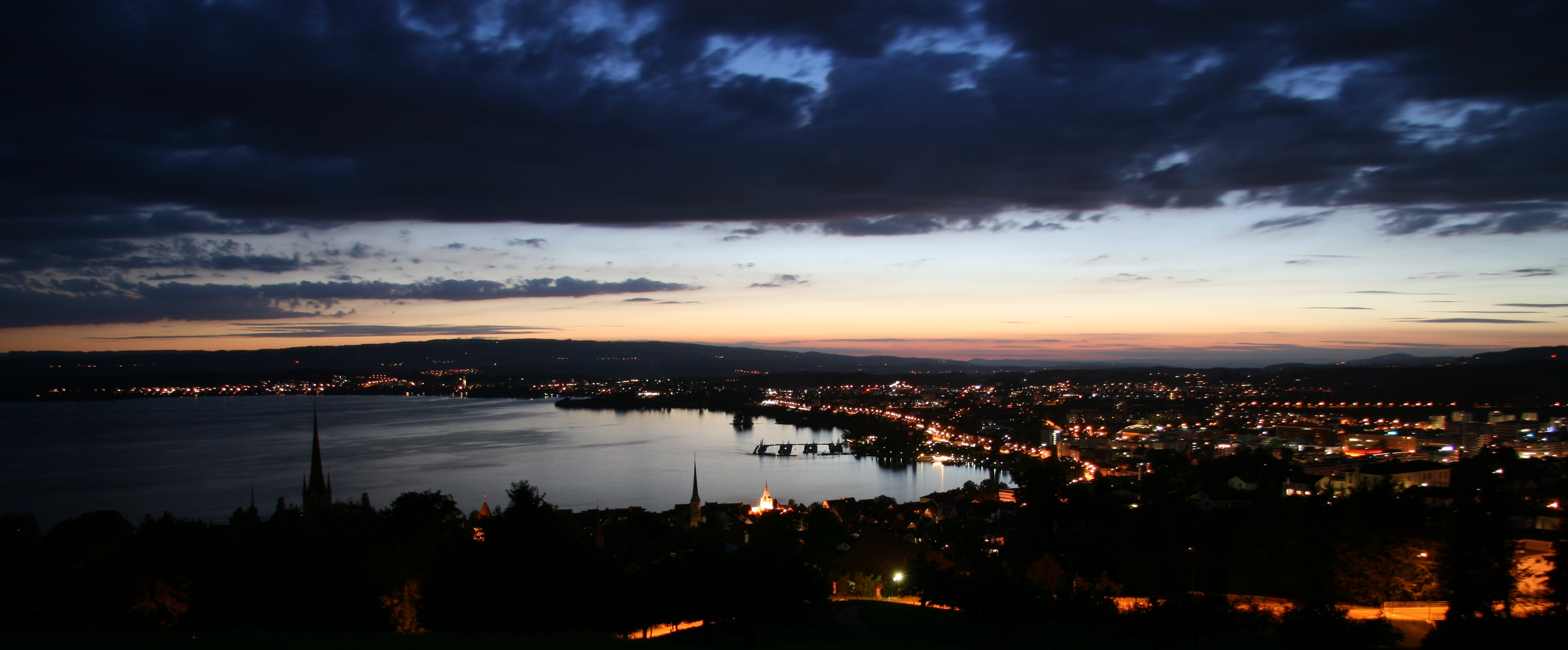 A picture of Zug, Switzerland just after the sun went down.